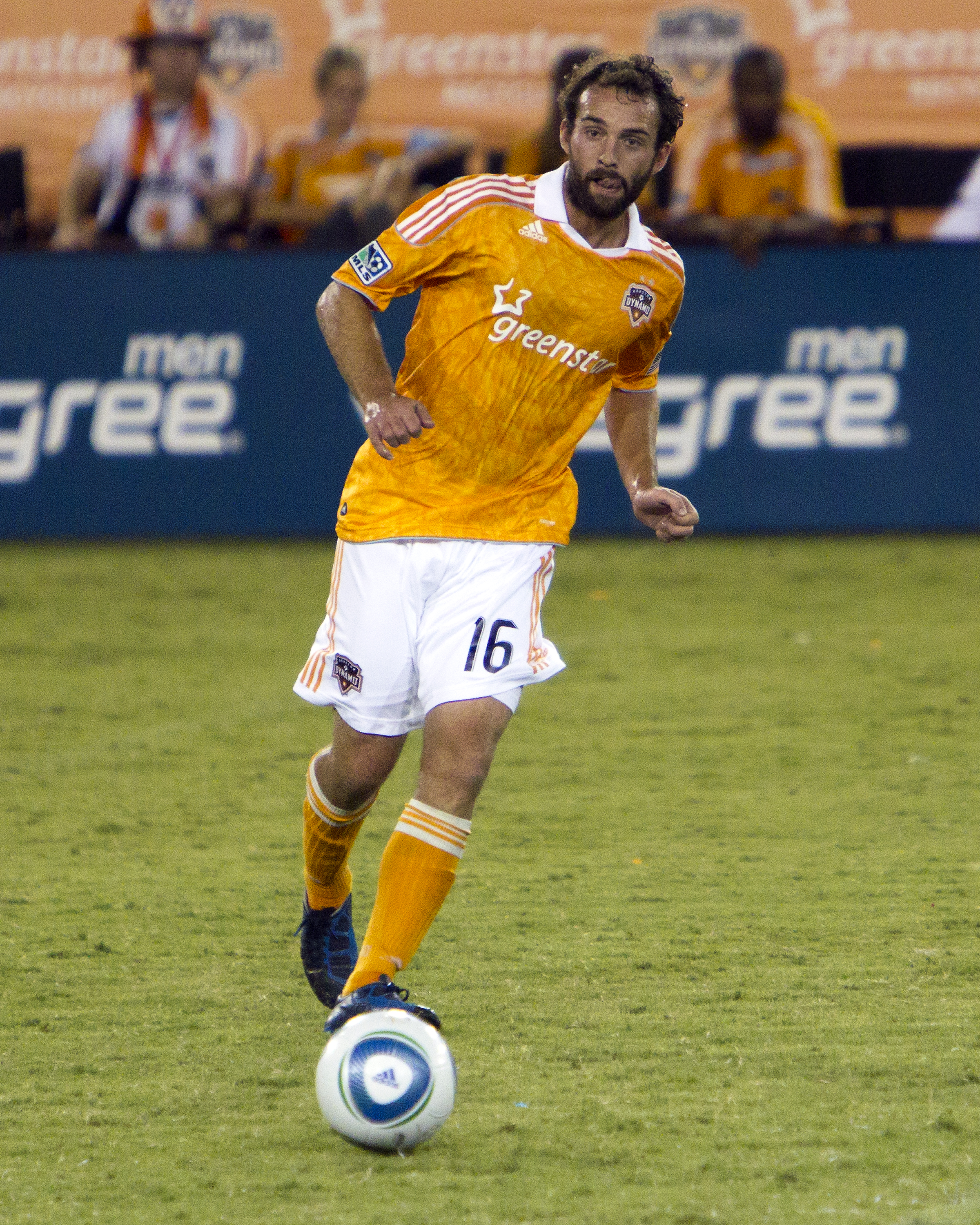 Adam Moffat #16 moves the ball down the pitch during a game at Robertson Stadium between the Houston Dynamo and the Portland Timbers on August 14, 2011